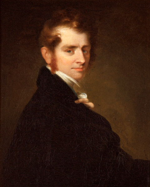 Object number : BATVG : P : 1984.20 Art work type and title : Oil Painting Portrait of John Arthur Roebuck M.P. (1801-1879) Design and creation : Date : 1832 Creator role : Artist Artist : Green , James Birth date : 1771 Death date : 1834 Measurements : Height (cm) : 77 Width (cm) : 63.5 Further information : This is an oil painting by James Green (1771 - 1834) of the M.P. John Arthur Roebuck (1801-1879). Roebuck was born in India and educated in Canada. Law was his profession and he served as M.P. for Bath from 1832-37 and from 1841-47. He later represented Sheffield at Parliament. Alongside his political career he wrote many pamphlets and books on political reform. James Green was a miniature painter who exhibited frequently at the Royal Academy. Later in life he turned his talents to larger scale commissions - this portrait was painted two years before he died. The painting was adopted by Susan Moore from Bristol. Susan came to look at the range of pictures in need of restoration though the Adopt a Picture scheme and chose this picture. She wanted to restore this previously very dirty, but well painted portrait of a handsome man and historical figure so that visitors to the Gallery could view it again. The portrait was bought for the Gallery in 1914. Indexing terms : Sitter : Roebuck , John Arthur Birth date : 1801 Death date : 1879 Keyword : British painting Keyword : Portrait Keyword : Oil painting Location status : On display